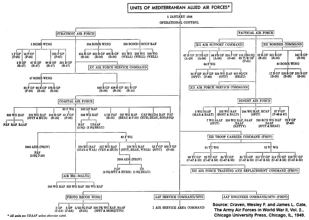 Craven, Wesley F. and James L. Cate